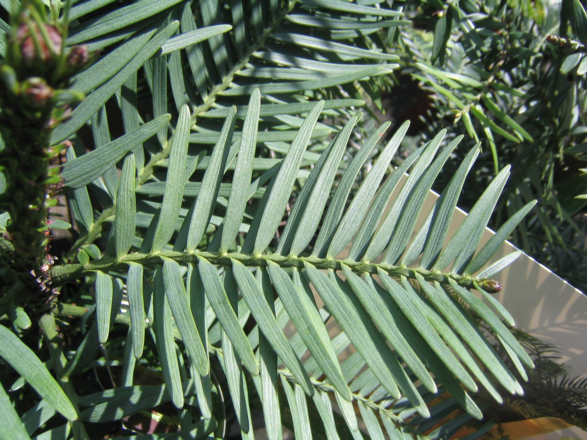 A branch on a young Wollemia nobilis (Wollemi Pine)